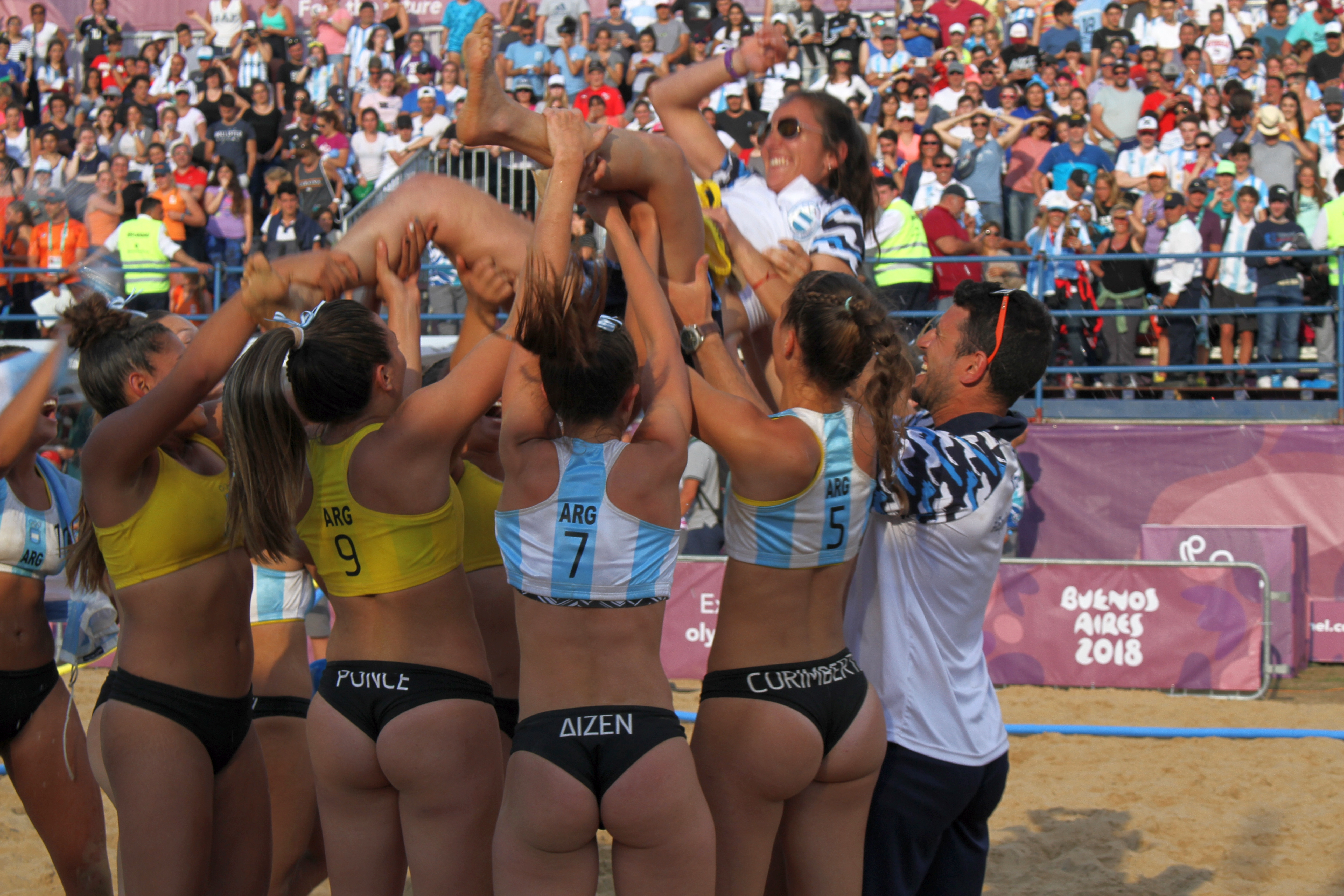 Beach handball at the 2018 Summer Youth Olympics in Buenos Aires at 13 October 2018 – Girls Gold Medal Match – Argentina-Croatia 2:0